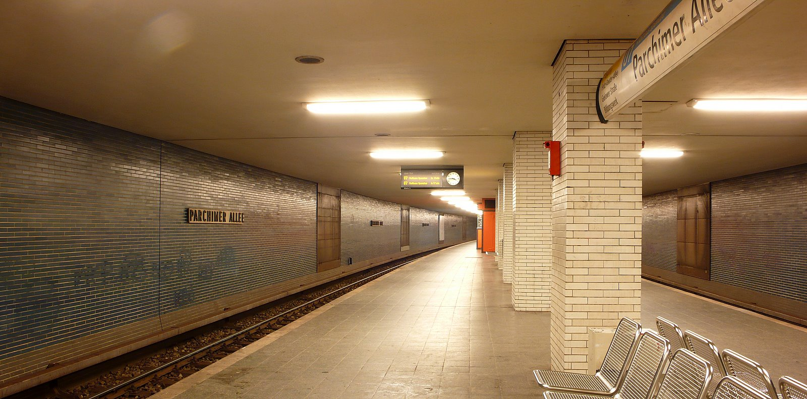 Parchimerallee U7 subway